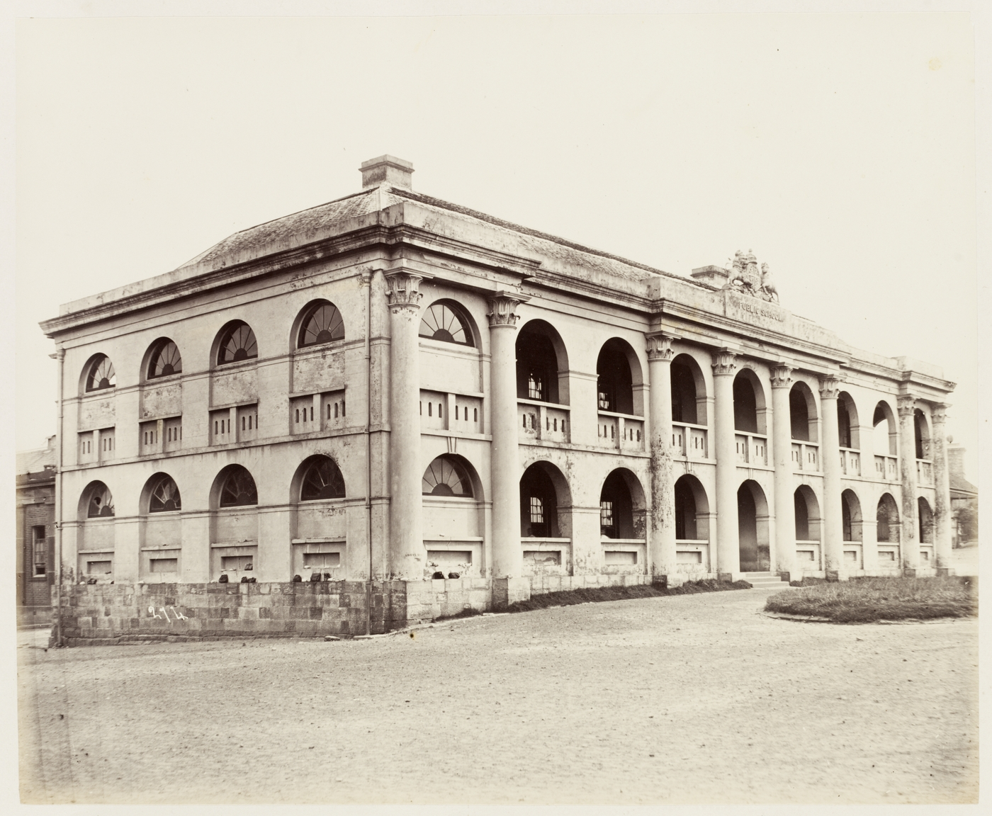 59. Public School (Fort Street) SH 684